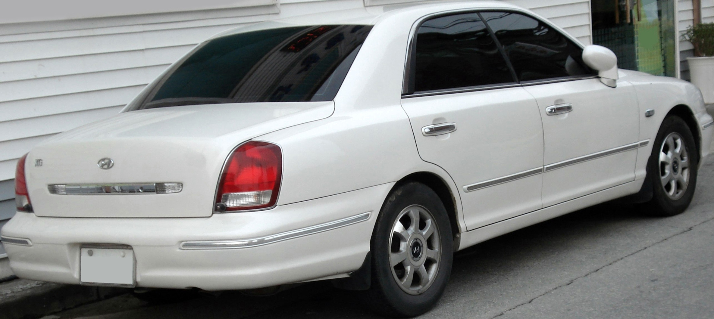 Hyundai Grandeur XG